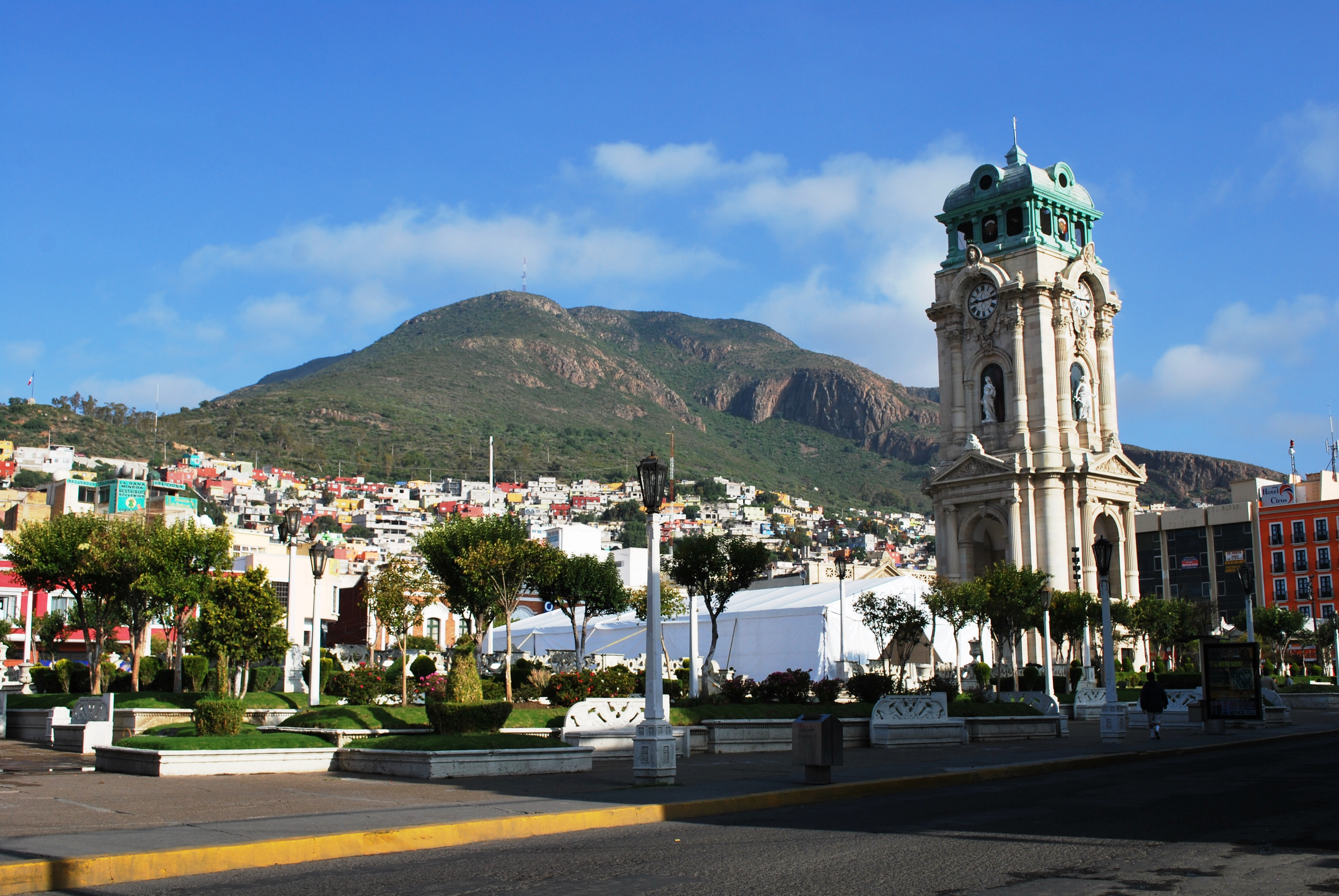 Main plaza of Pachuca with Reloj Monumental